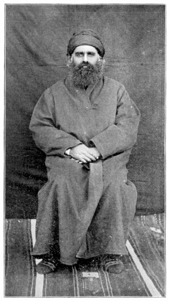 Nestorian Archbishop Shimun XVIII Rubil.